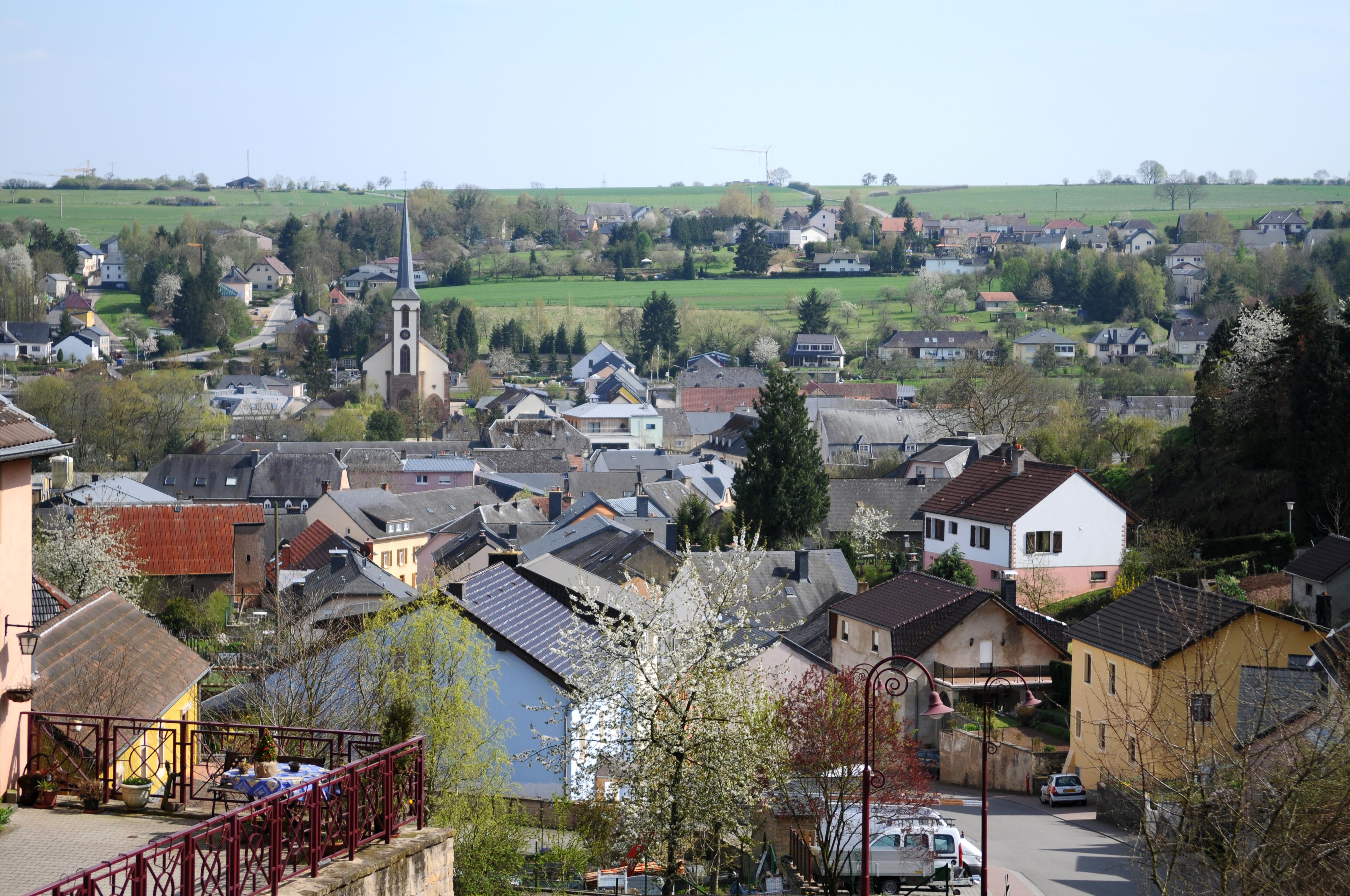 Luxembourg: the vilalge of Bissen as seen from Wobierg.